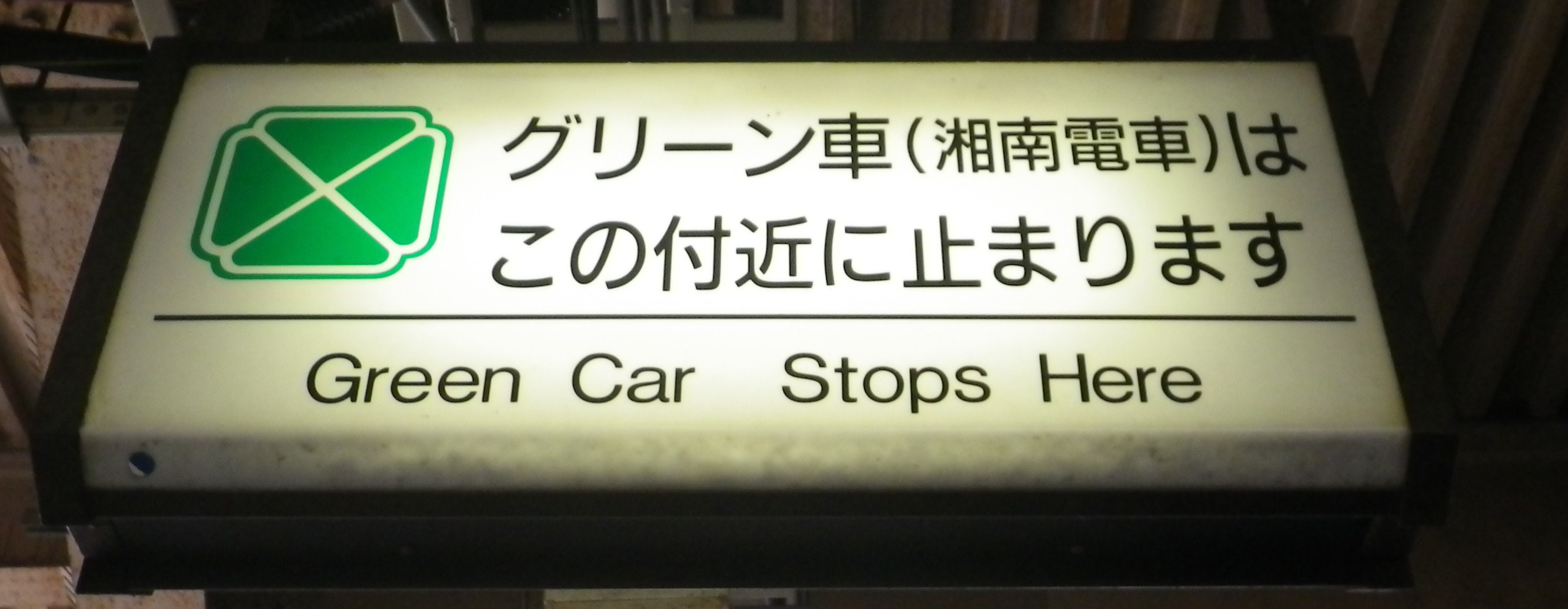 It is a Green Car carriage stop position signpost of Ofuna Station.